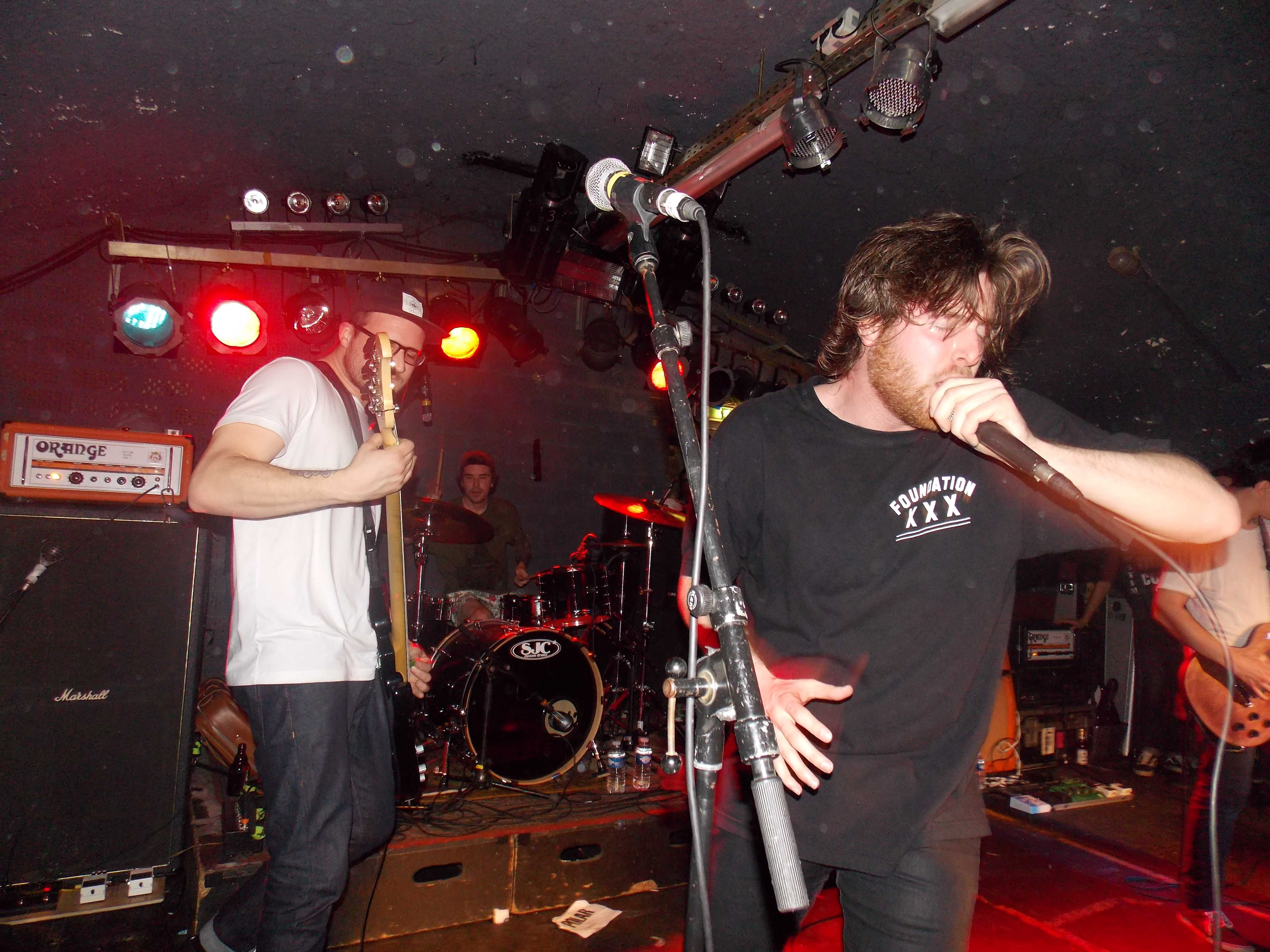 Counterparts performing at Exzellenzhaus in Trier in 2014. From left to right: Eric Bazinet (bass), Kelly Bilan (drums/background) and Brendan Murphy (vocals).